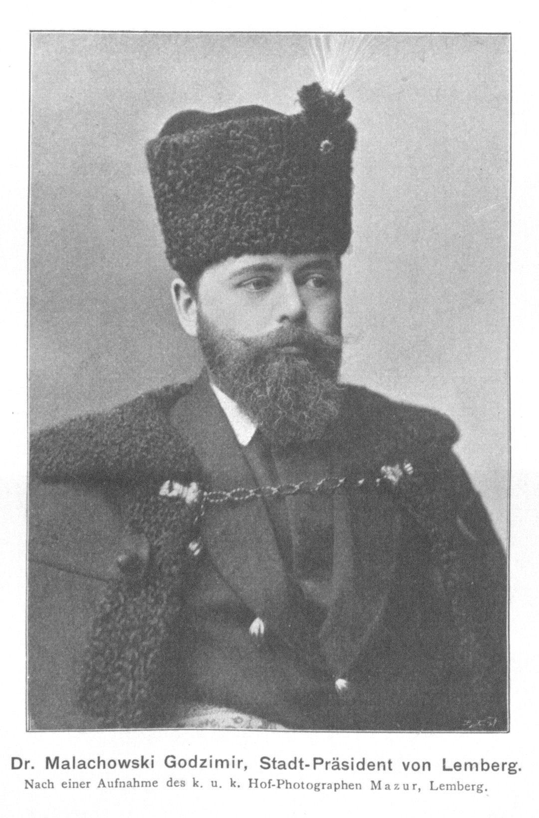 Portrait of Godzimir Małachowski (1852-1908), Mayor of Lemberg in Galizia (now Lviv in Ukraine).